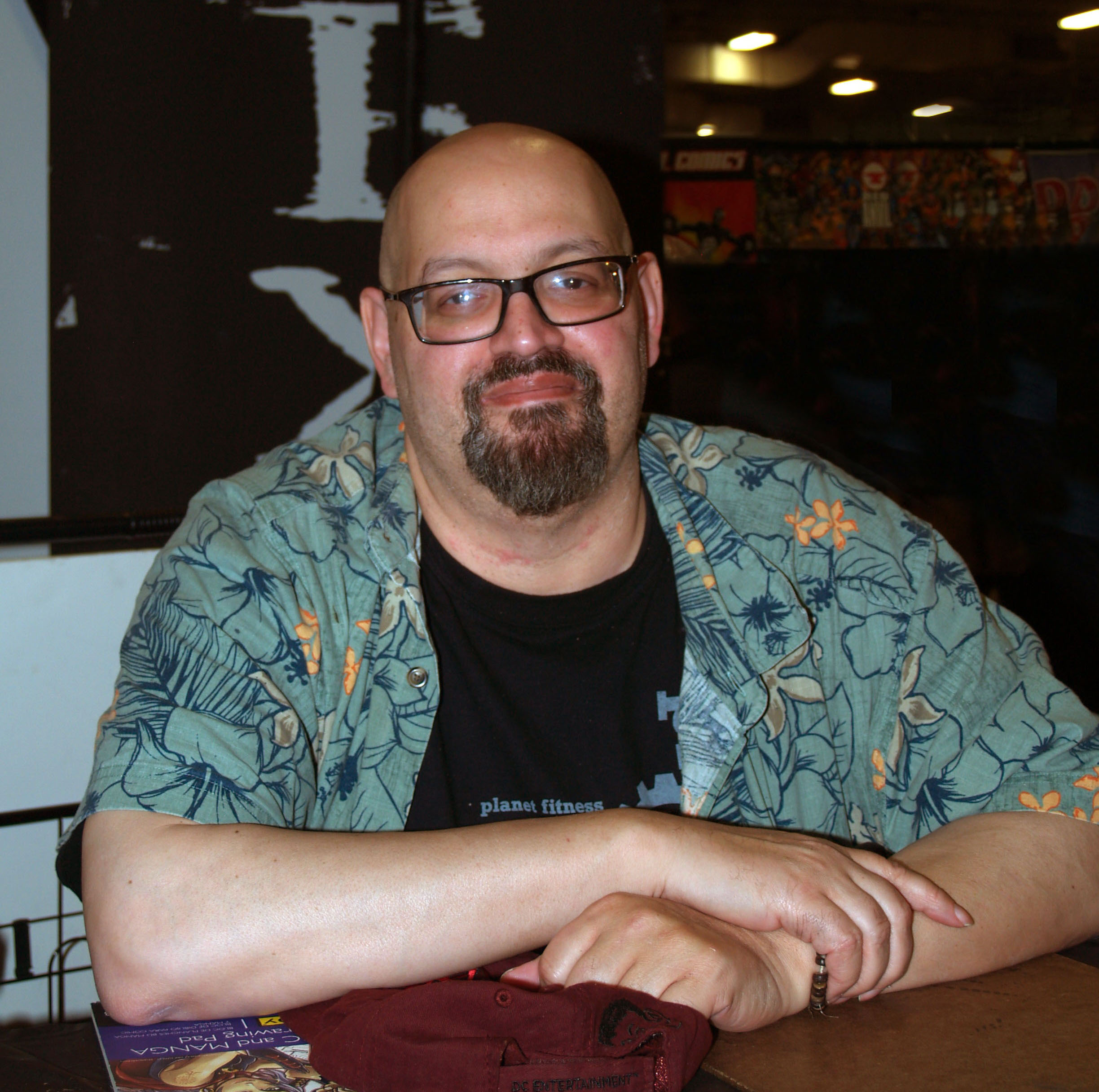 Comics artist Mike Manley at the Meadowlands Exposition Center in Secaucus, New Jersey on April 17, 2016, Day 2 of the 2016 East Coast Comicon. This photo was created by Luigi Novi. It is not in the public domain, and use of this file outside of the licensing terms is a copyright violation.